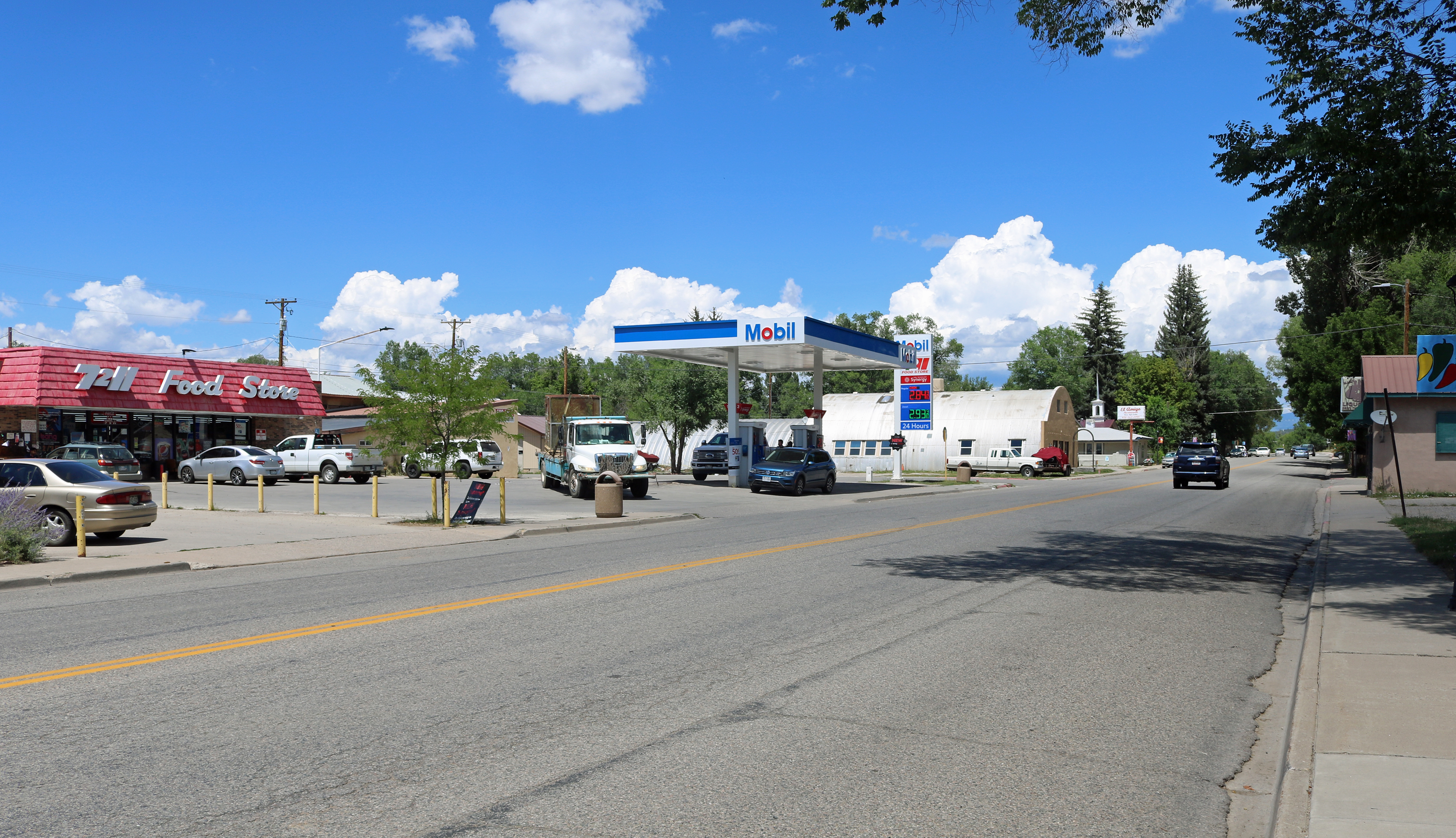 A view of part of Ignacio, Colorado. The view is to the north along Goddard Avenue, Ignacio's main street.